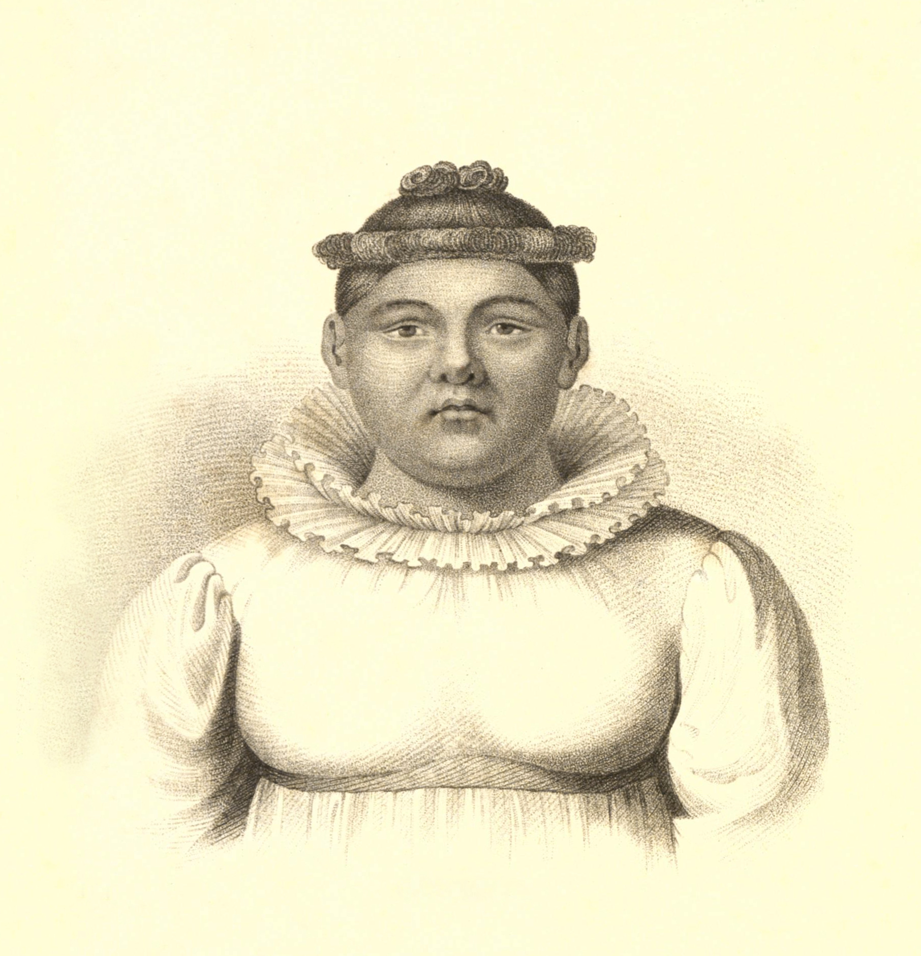 "Nomahanna, Queen of the Sandwich Islands". Kotzebue published this portrait of Namahana as a frontispiece to his A New Voyage Around the World. He described her midnight-black hair as "neatly plaited atop a head as round as a ball" and often decorated with a lei po‘o (head lei) of Chinese artificial flowers. A robust woman, she wore large-sized, European-made men’s shoes.